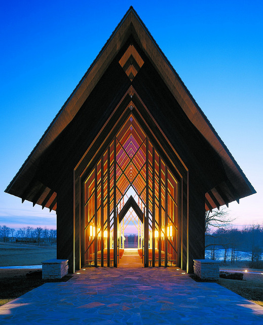 The chapel in winter. February 2015.